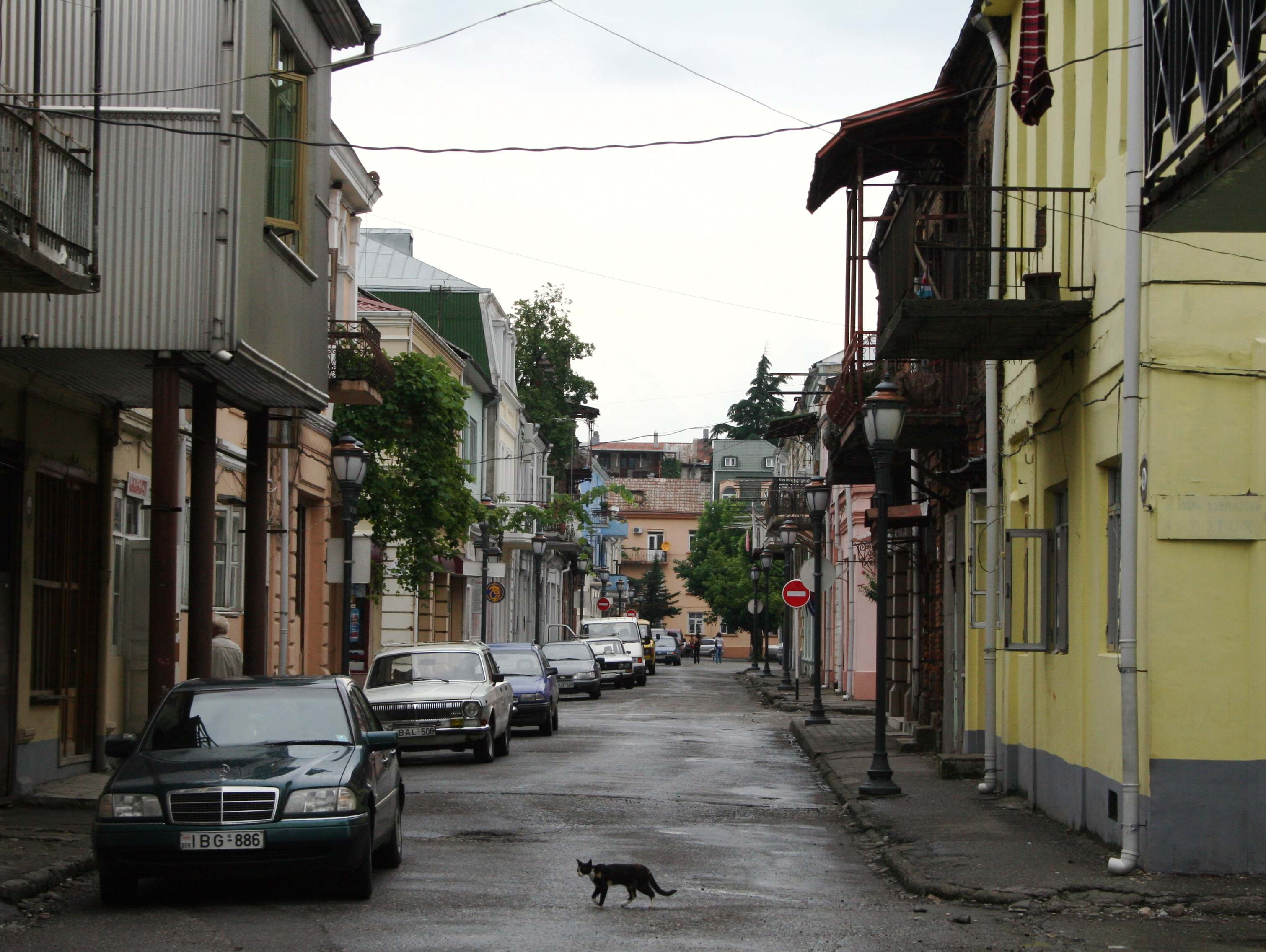 Old street in Batumi, Georgia